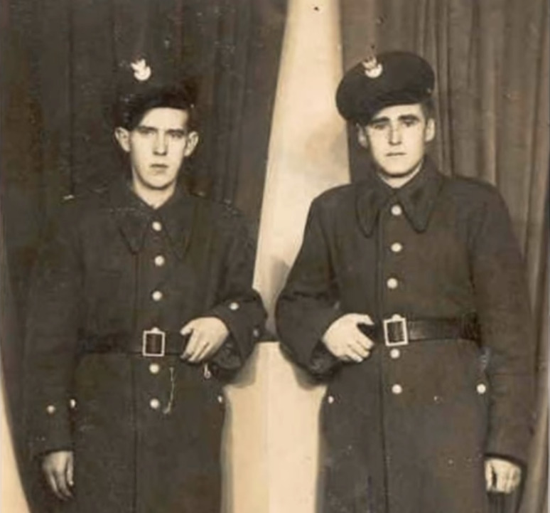 Border Protection Forces in Pokrzywna.